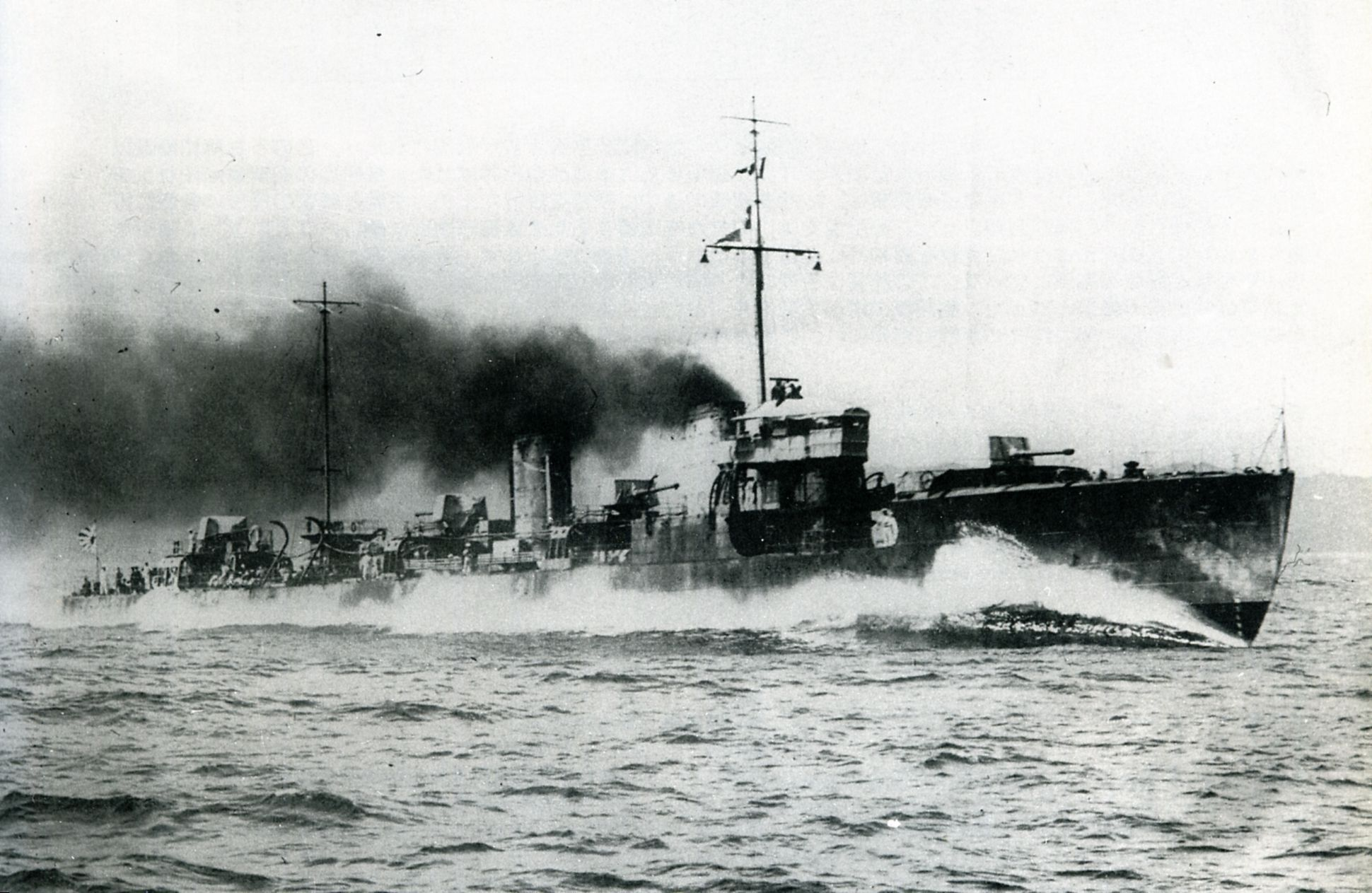 Imperial Japanese Navy destroyer Tachikaze on speed trials off Maizuru.